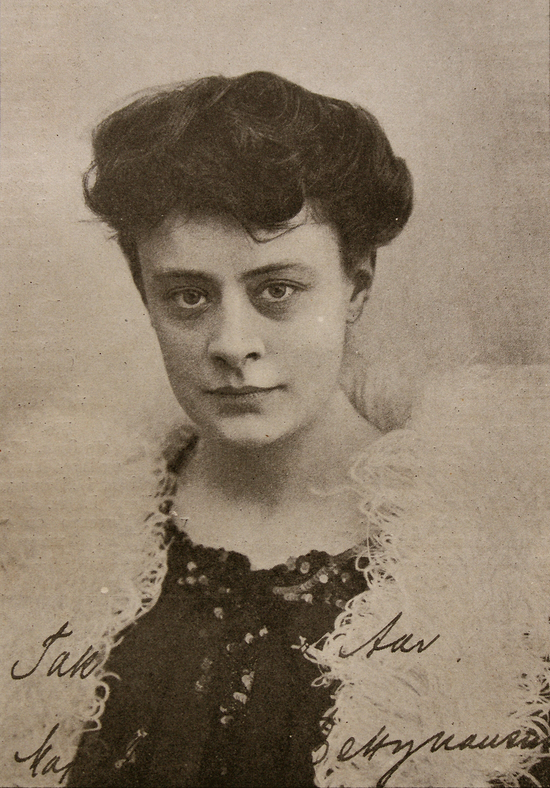 Betty Nansen, Danish actor and director of the theatre Betty Nansen Teatret in Copenhagen, Denmark